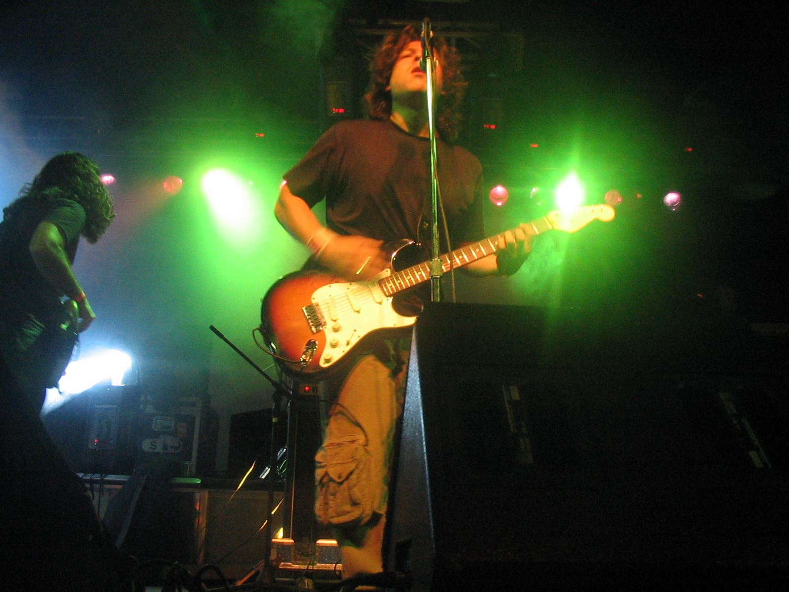 Ignacio Peña performs during Las Justas in Ponce, PR on 2004.